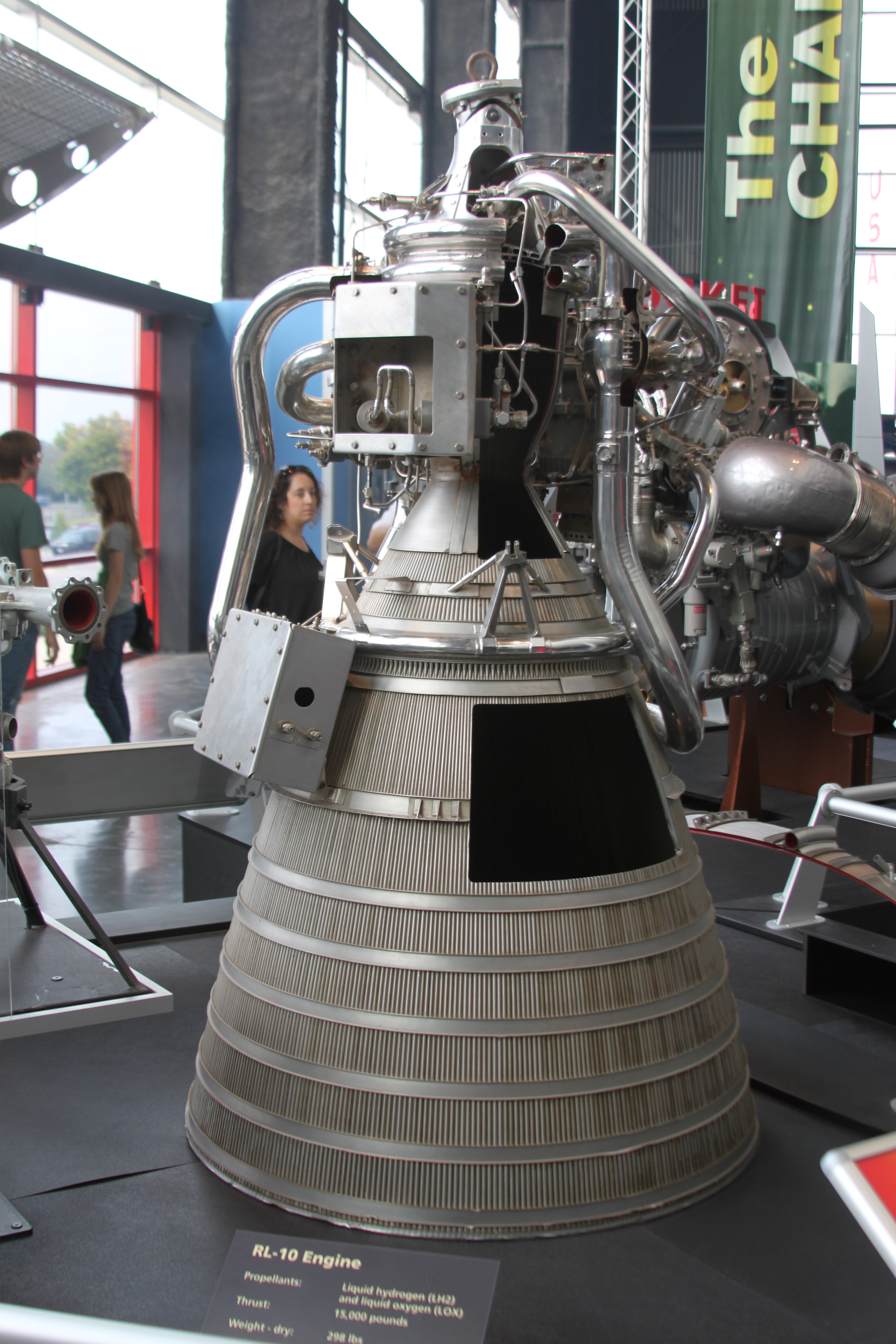 An RL-10 rocket engine on display at the U.S. Space & Rocket Center, with cutaway showing the tubing through the bell